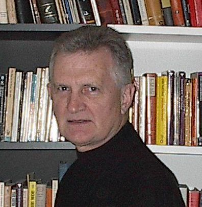 Photo of J. P. Wearing at Lynn Haven.